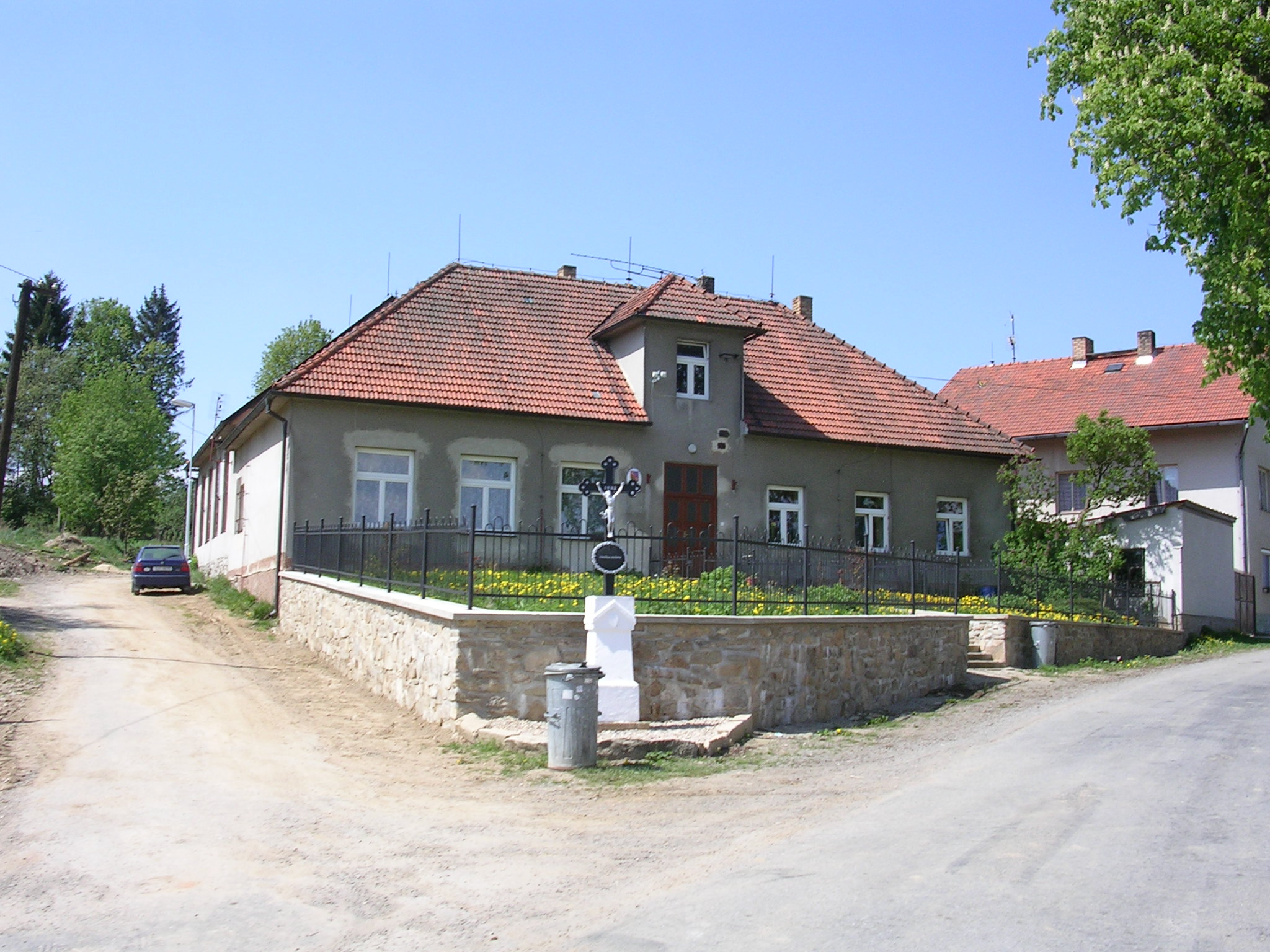 Mezilesí, Vysočina Region, the Czech Republic. A municipal office.